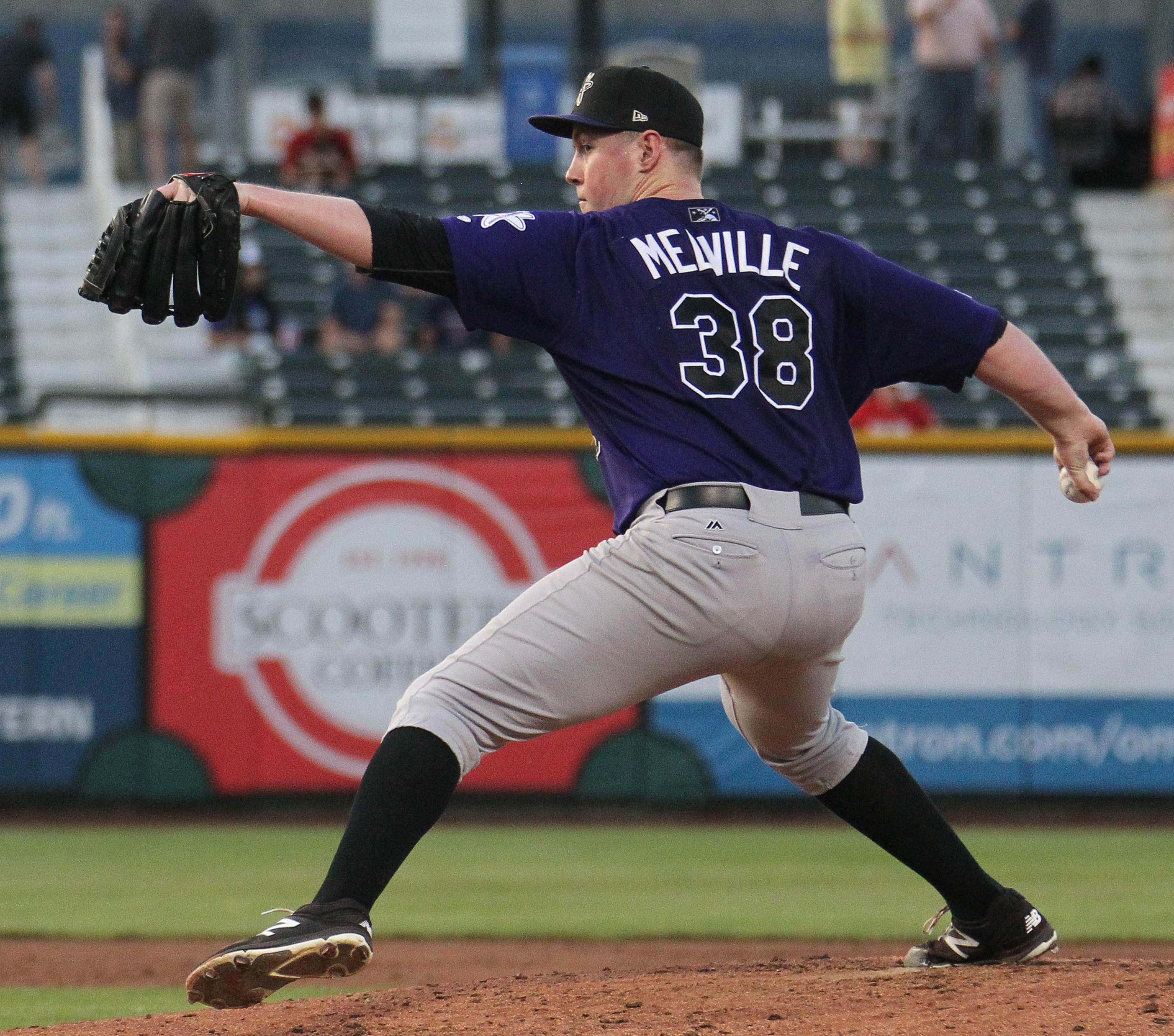 Tim Melville delivers a pitch for the Albuquerque Isotopes during a 2019 game at Werner Park in Nebraska.